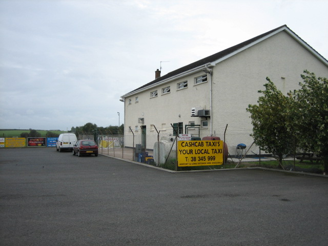 Clubhouse/Pavilion at Pairc na Ropairi, Derrymacash. The main sports in Derrymacash are Gaelic football and camogie, represented by the Wolfe Tones and St Enda's teams who play their home games in Raparee Park. The Wolfe Tones, are currently in the top flight in the Armagh ACL Division 1 after many years of absence.